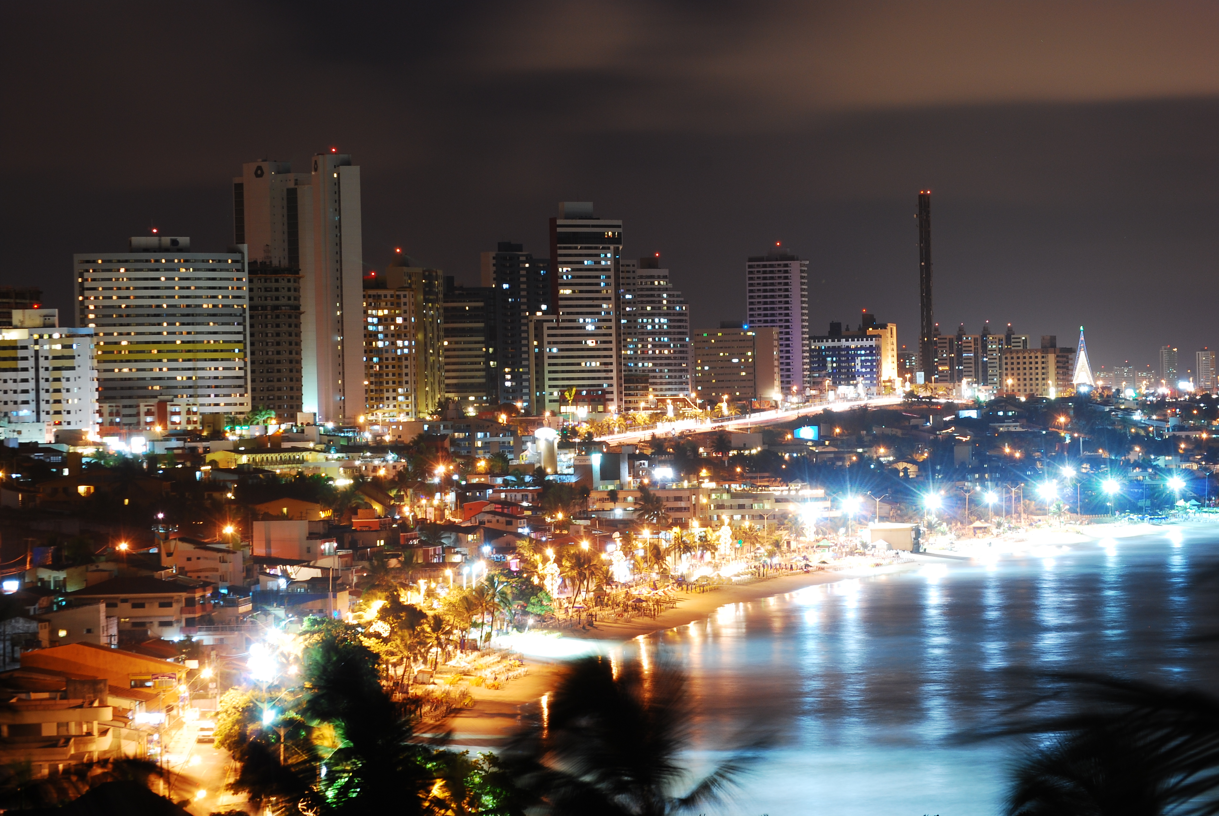 Ponta Negra Beach, Natal, Rio Grande do Norte, Brazil.